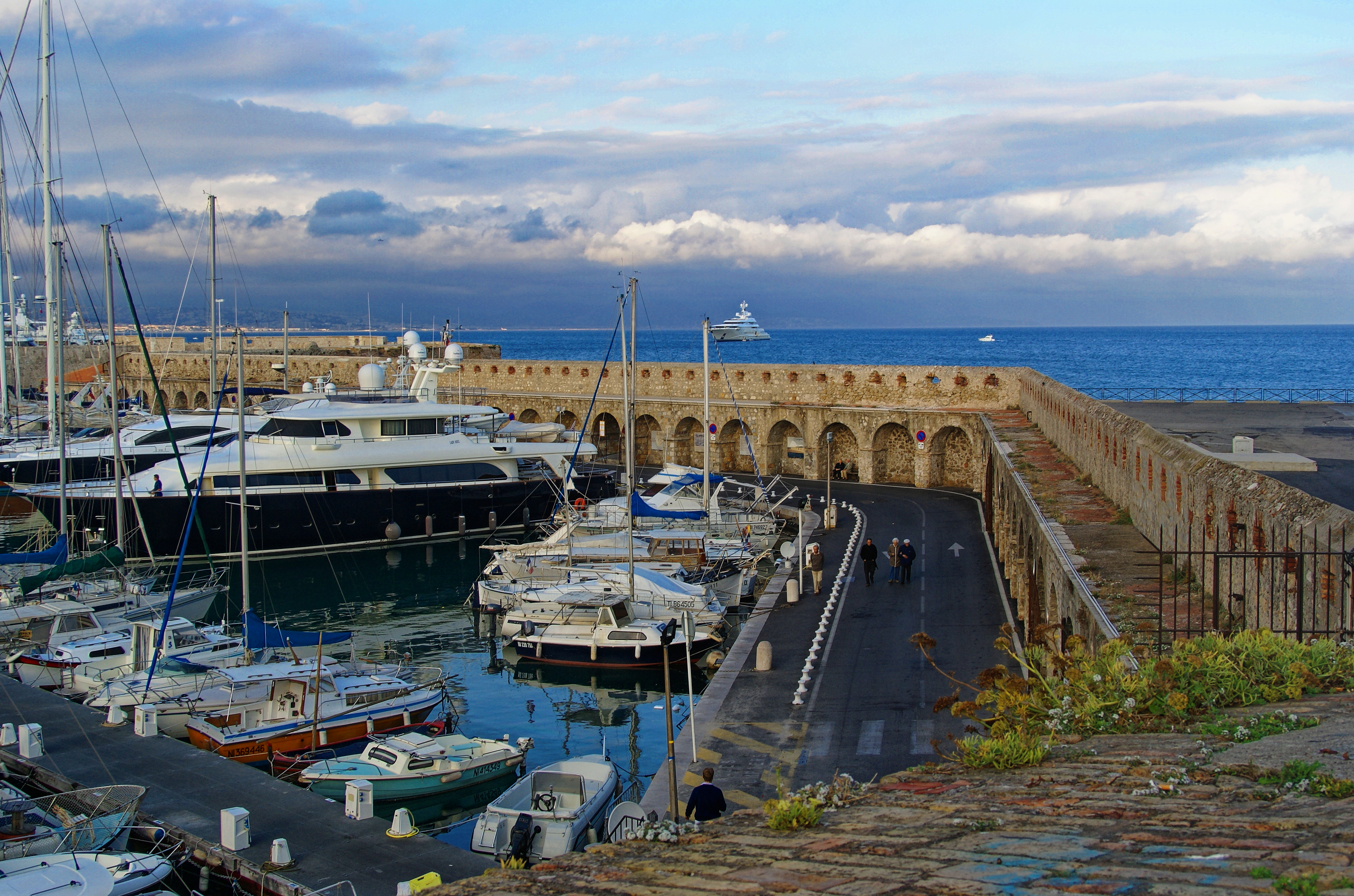 Antibes - Promenade Courtine - View NE on Quai Henri Rambaud